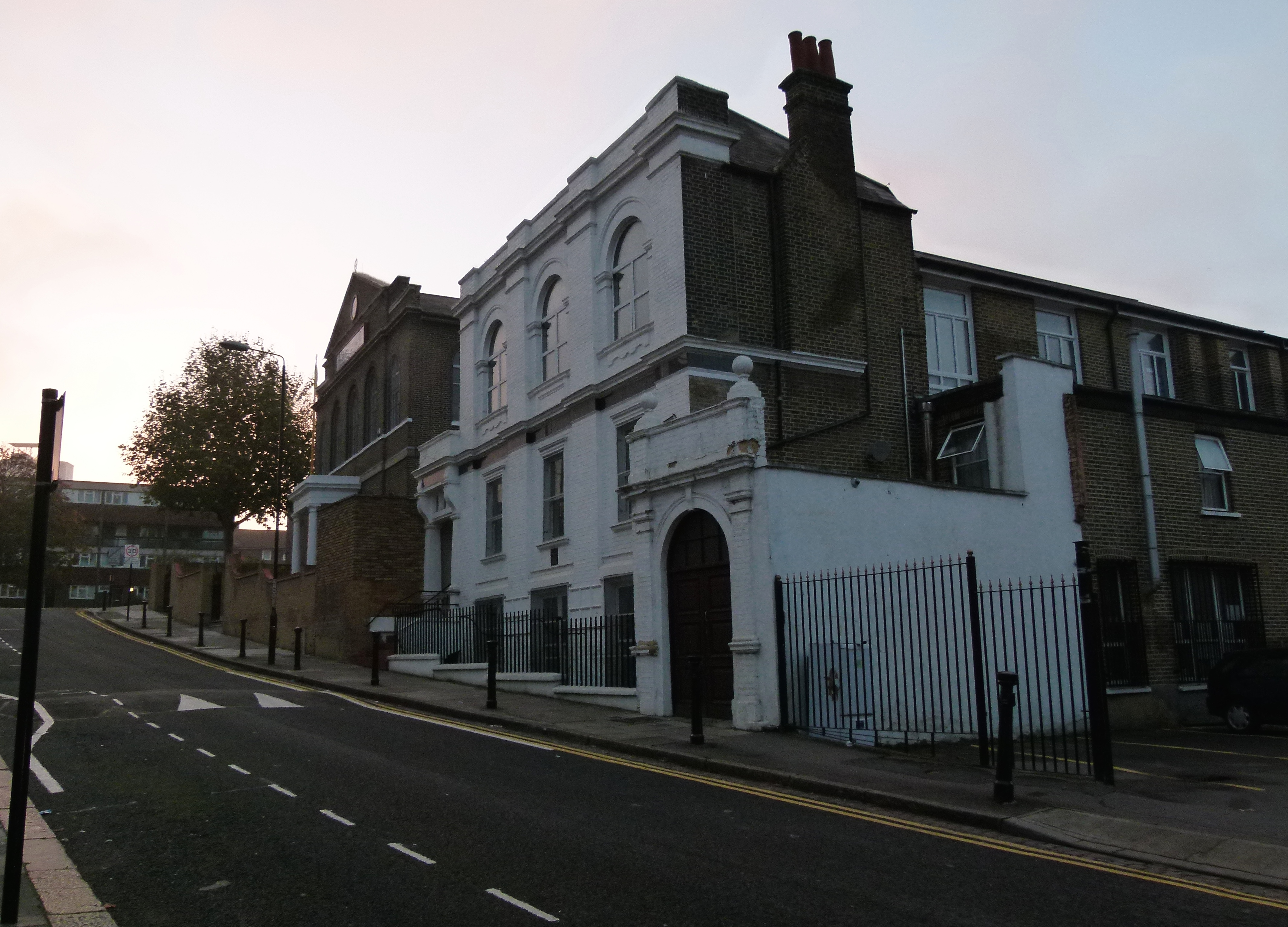 Evening view of the Sahib Gurdwara at the west end of Calderwood Street, Woolwich, South East London.